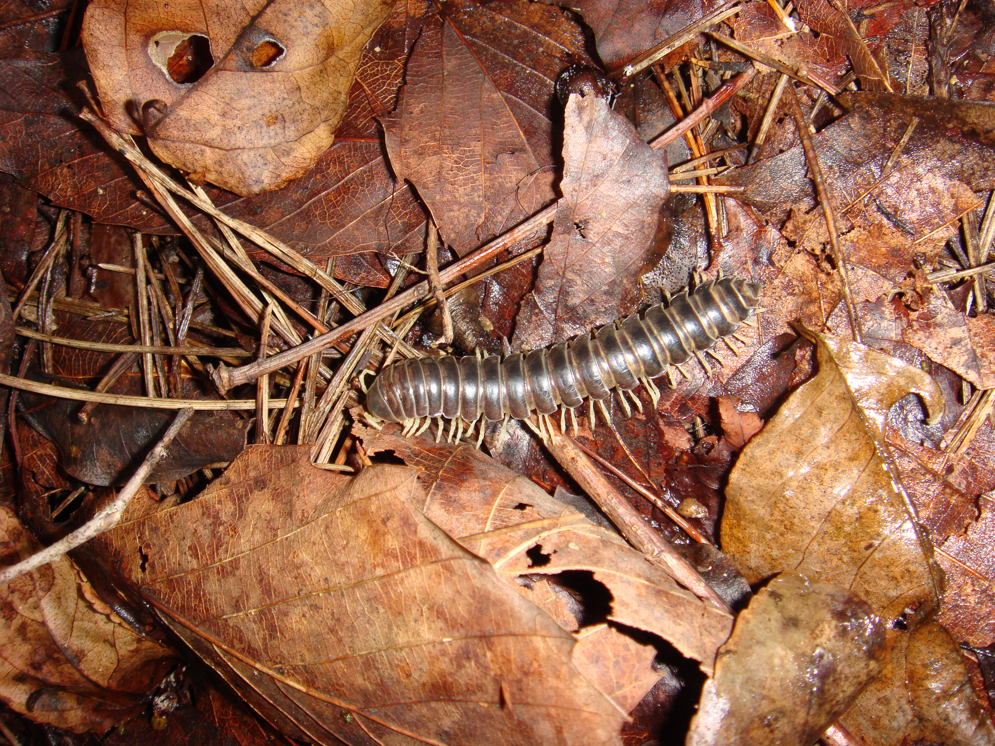 A millipede in Sengari Camp, near Sanda, Hyōgo, Japan